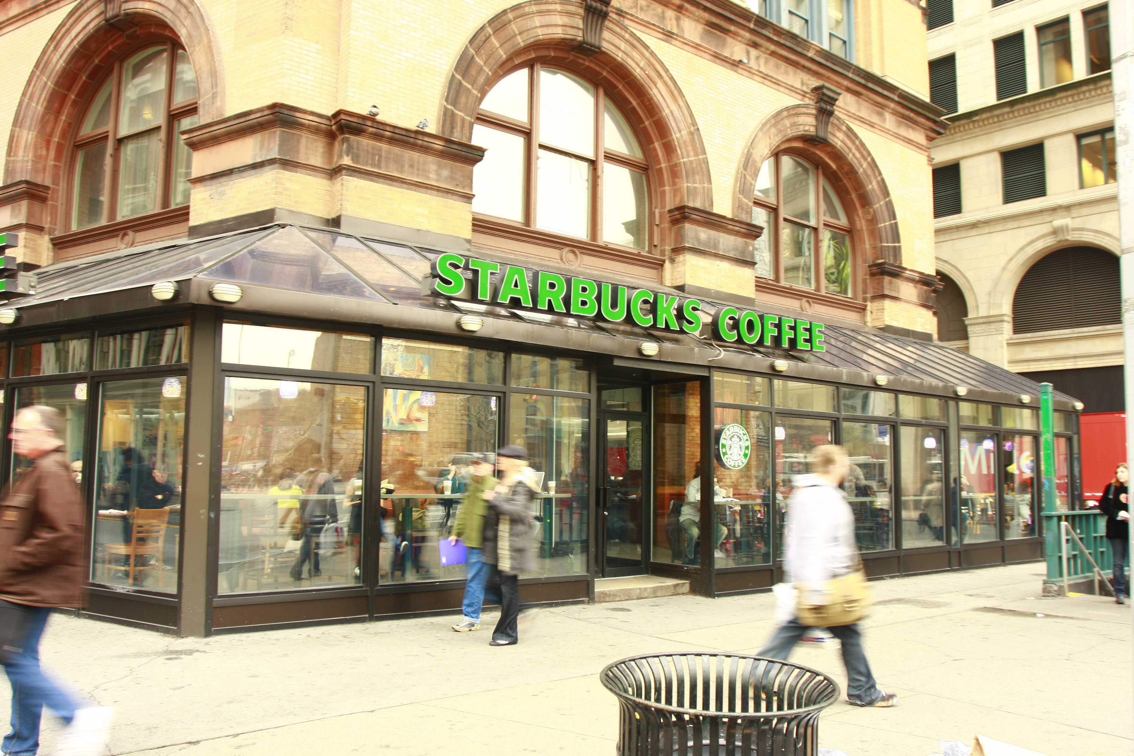 Context photo from 'Wikipedia Takes Manhattan' Wikimedia content creation event.Starbucks at 13 Astor Place.